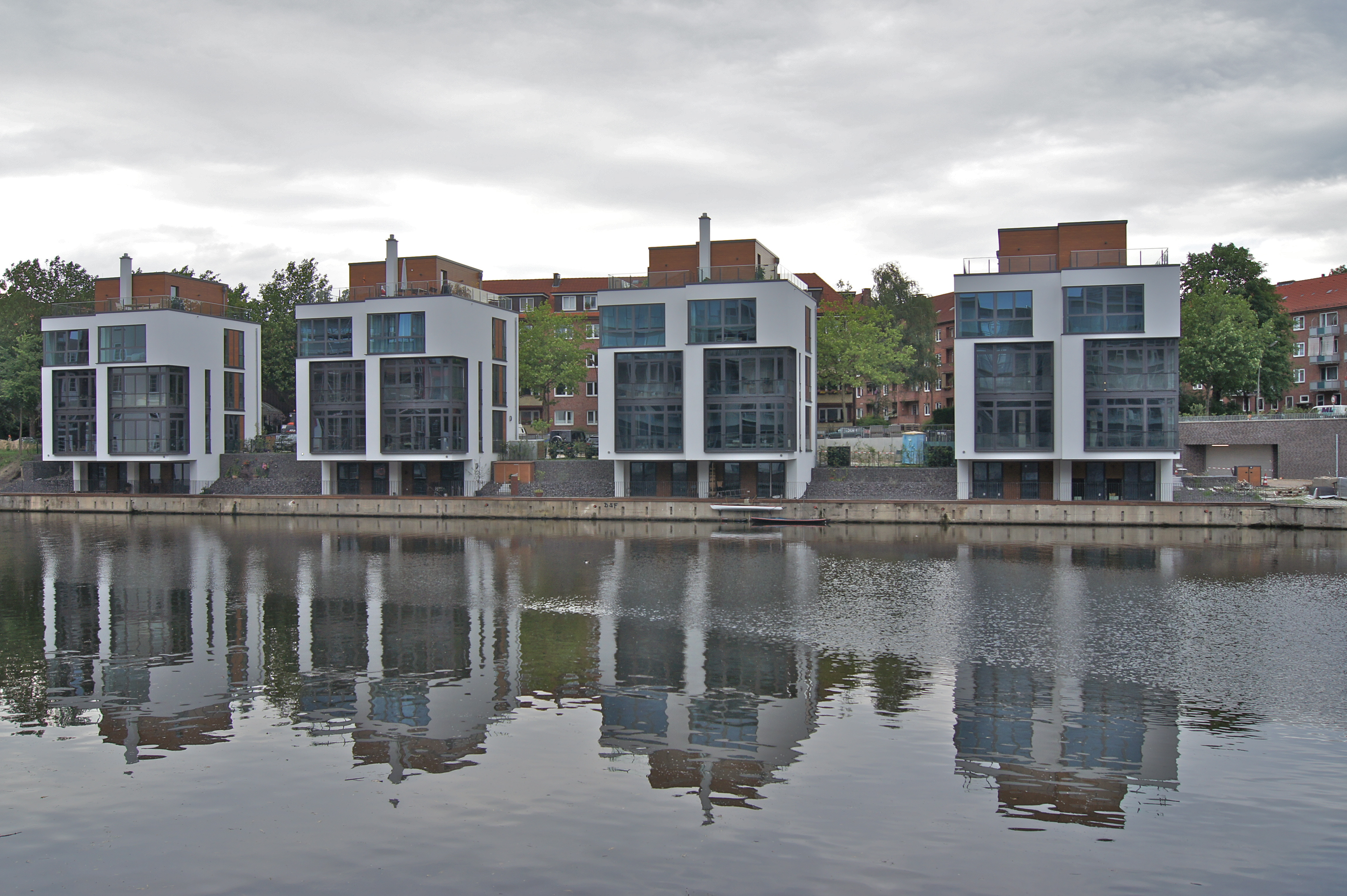 Hamburg (Barmbek-Nord), Germany: New flats at the Osterbek